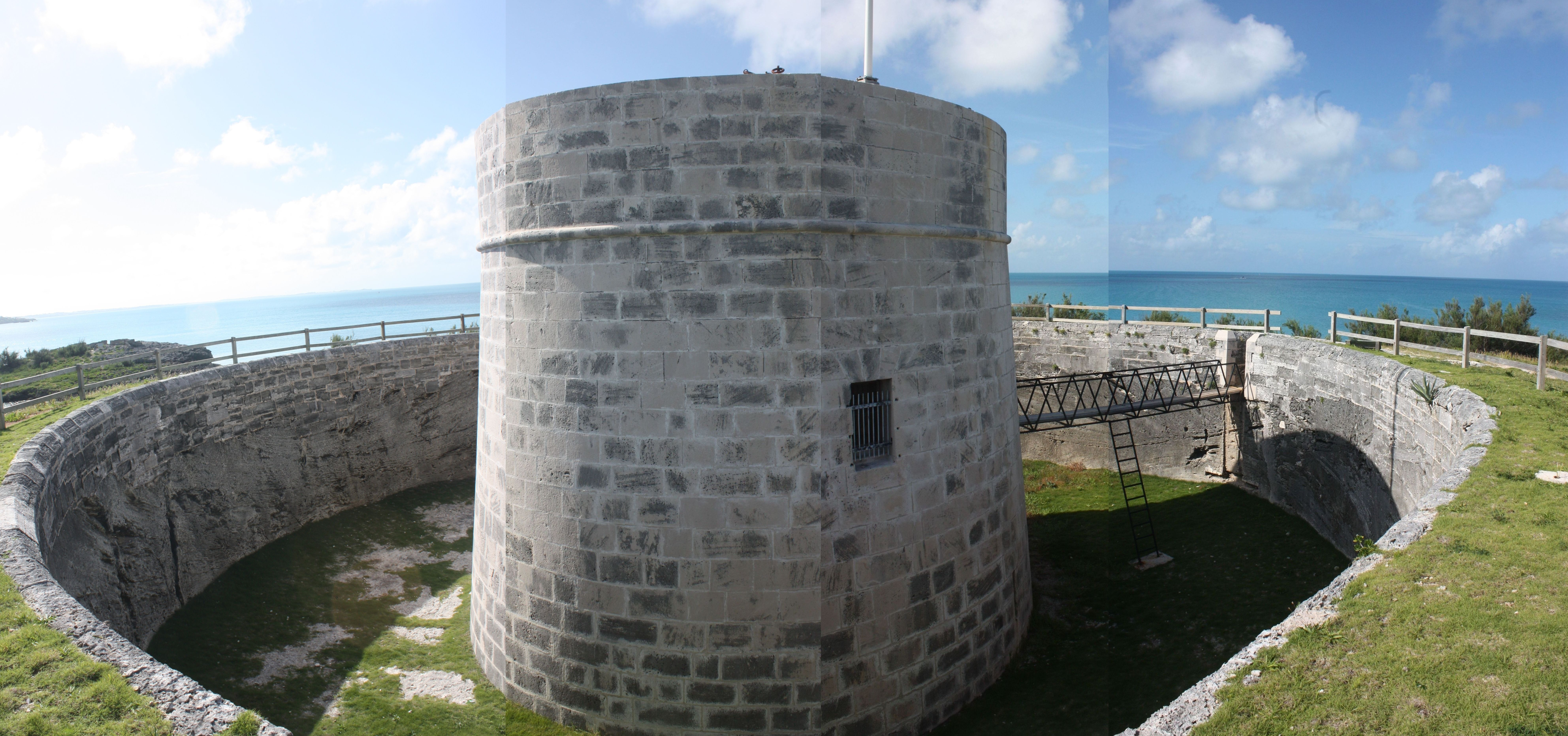 Montage of the Martello tower at Ferry Reach, on St. George's Island, Bermuda in October, 2011.